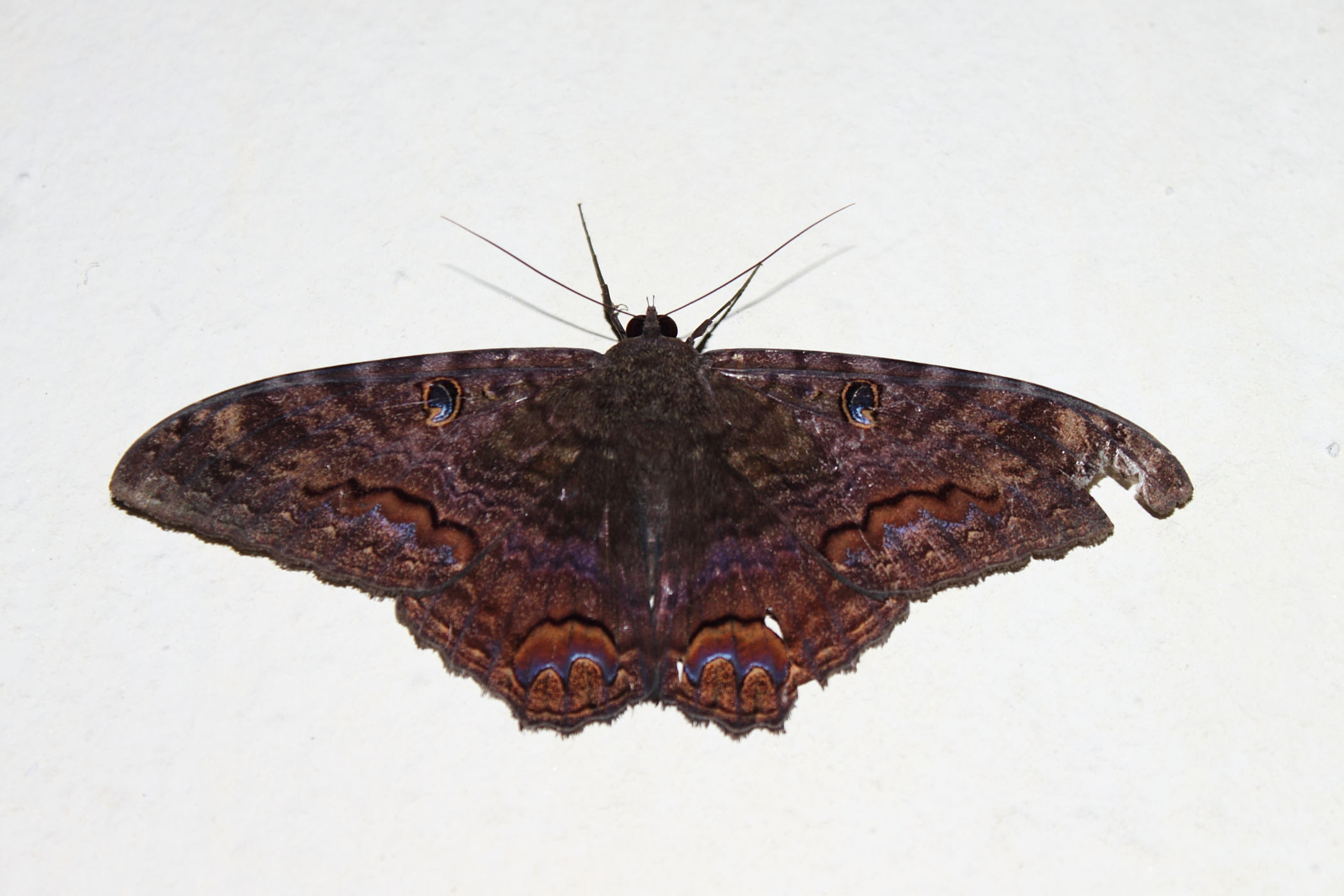 a nocturne moth in Rio de Janeiro, Brazil